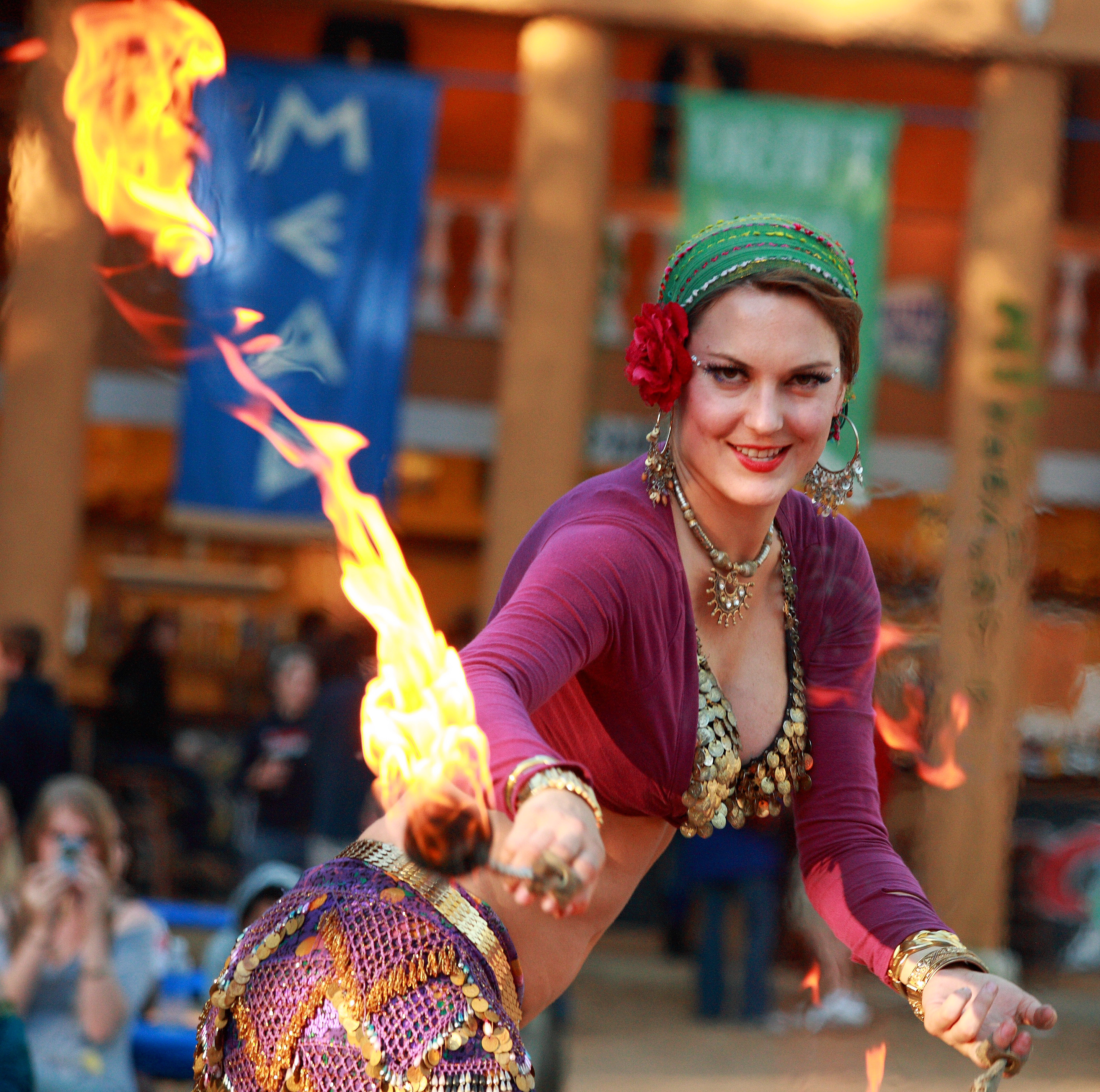 I checked out the Gypsy Dance Theatre at the Texas Renaissance Festival (TRF) and immediately had my socks blown off. This group of belly dancers are incredible - not only are the individual stunningly photogenic but their dances are great. I caught part of several shows and each one was different. Great chemistry in this group. The only downside of the entire event was the lighting - the daylight shows were in full, bright sunshine which created a lot of shadows and splotching - what a bummer - but all-in-all this was one of the best acts in the show. I took this photo over the 6-7 November 2010 weekend and hope to go back again next year.